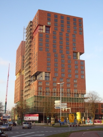 Utrecht, residential building "CityCampus MAX"